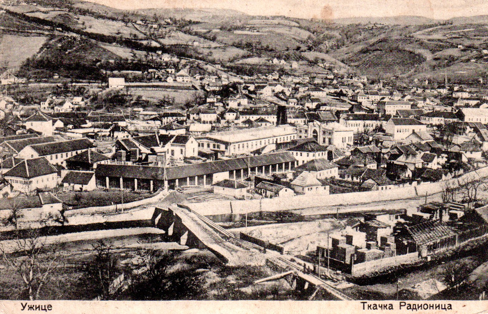 Weaving Factory in Uzice in 1932.